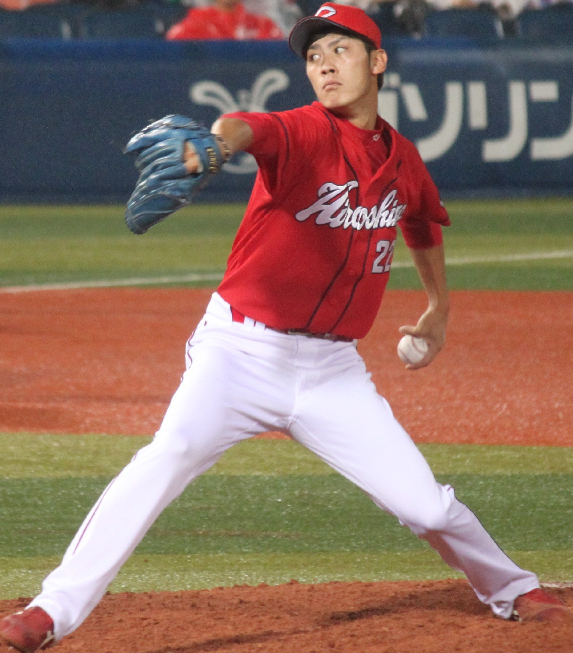 Kyohei Nakamura, pitcher of the Hiroshima Toyo Carp, at Yokohama Stadium.